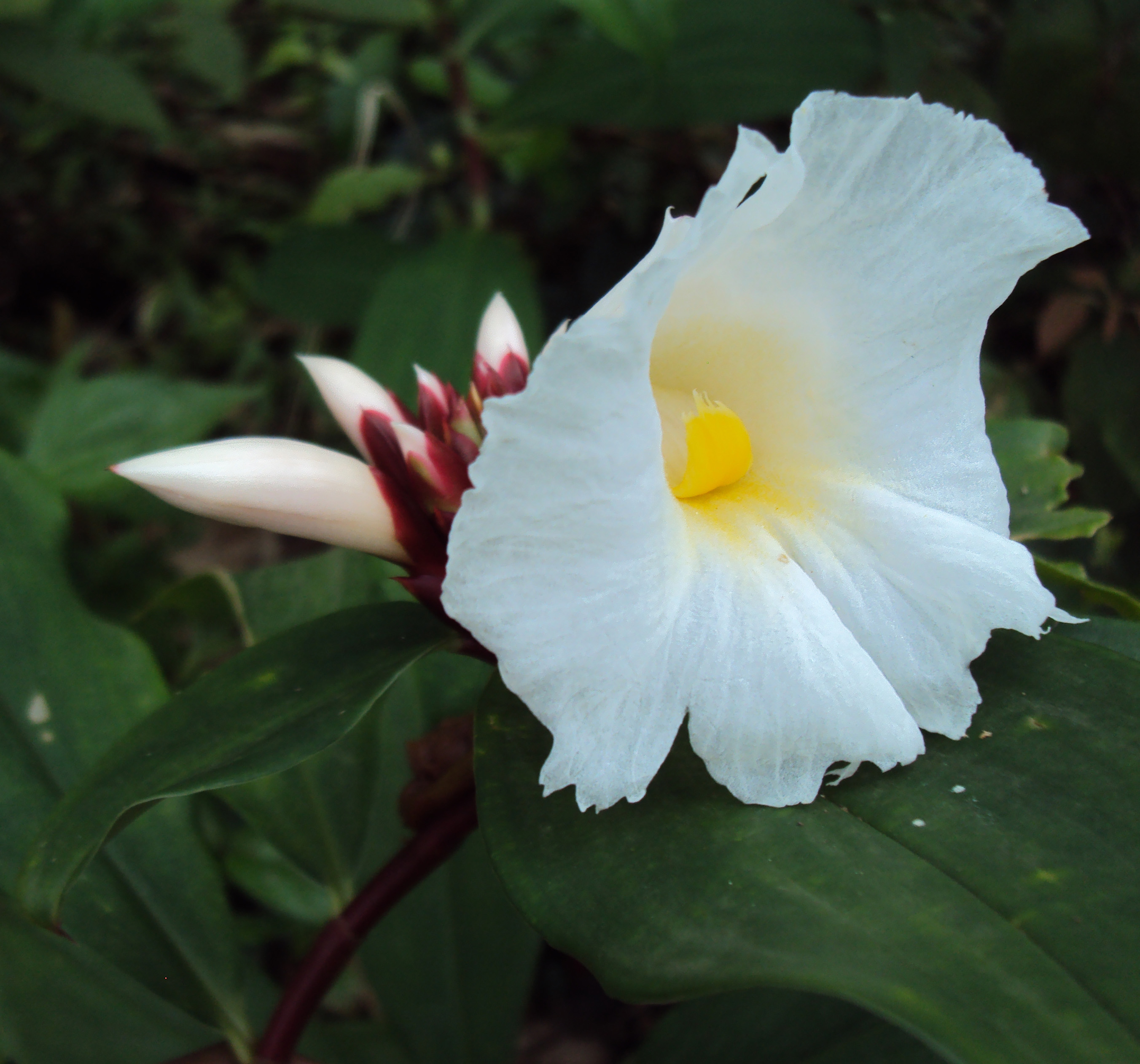 Cheilocostus speciosus